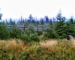 Flat summit of Na Kneipe in Jizera Mountains